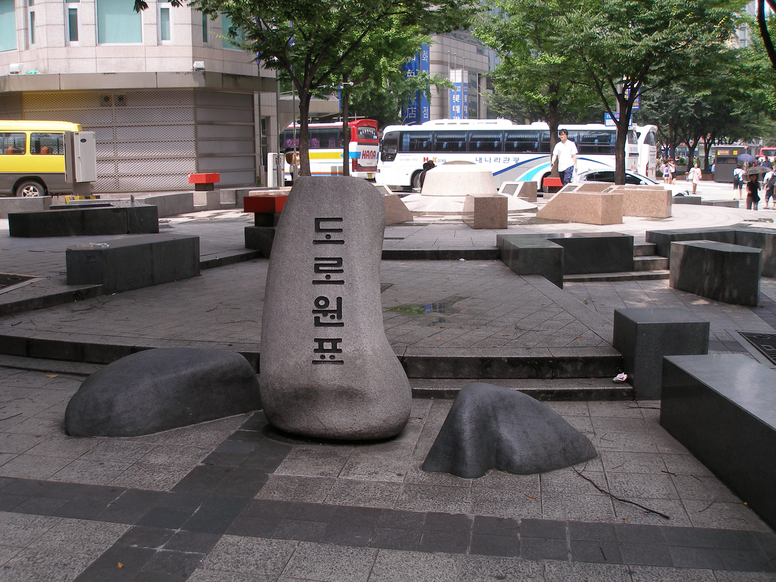 Zero Point of roads in Korea located in Sejongro, Seoul